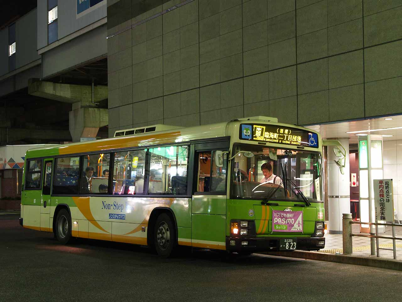 Toei Bus "Midnight 10" route, bound for Seishincho and Rinkaicho, waiting at Nishi-Kasai station. Model: Isuzu Erga KL-LV280L License plate: TKA200 KA-823 東京メトロ東西線の西葛西駅から江戸川区清新町・臨海町方面へ運行される都営バス深夜10系統「ミッドナイト25」。都営バスの深夜バスは前面の系統部分にフクロウが表示される。 登録番号：足立200か・823